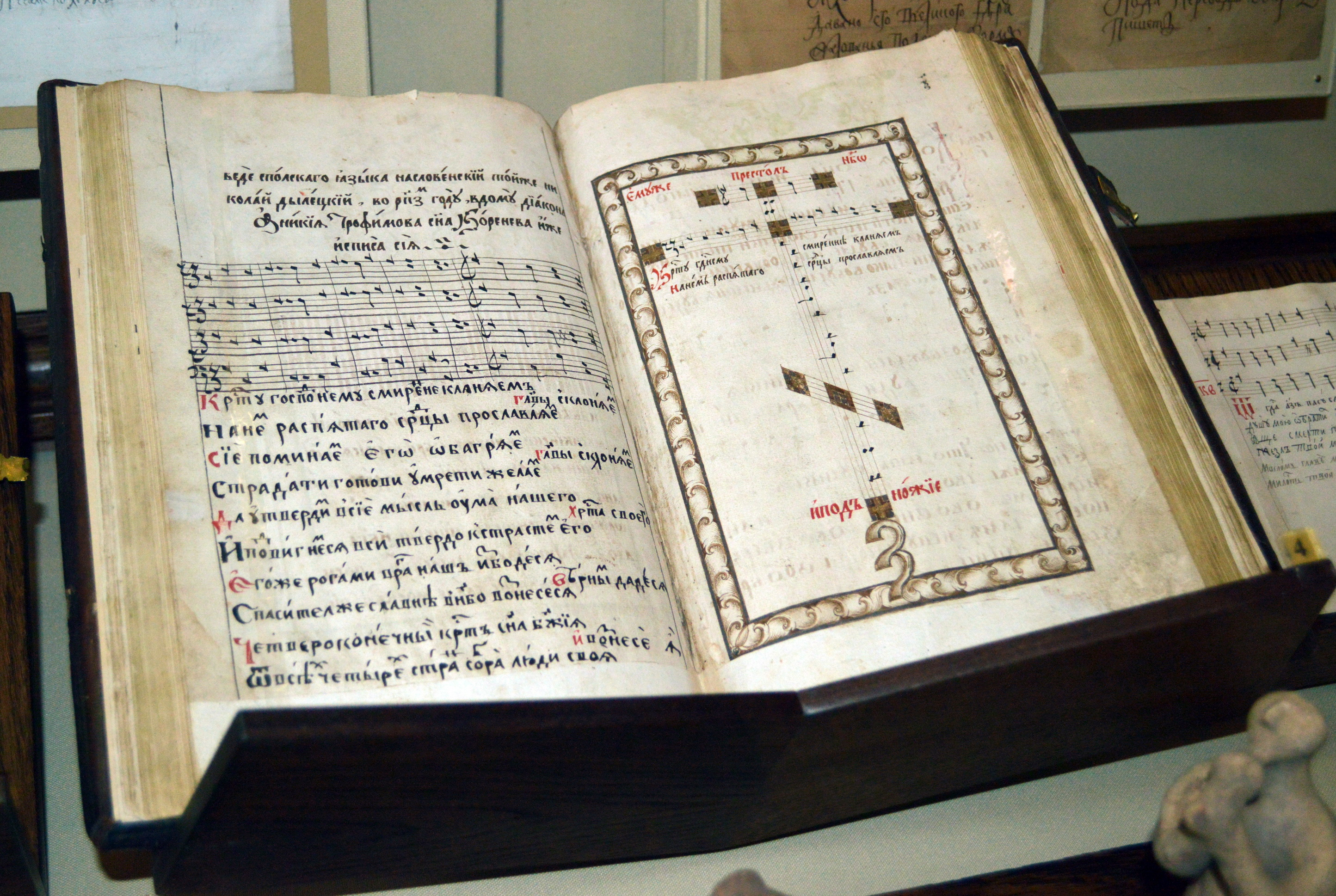 Nikolay Diletsky, A Musical Grammar, 1675. 18th century manuscript.